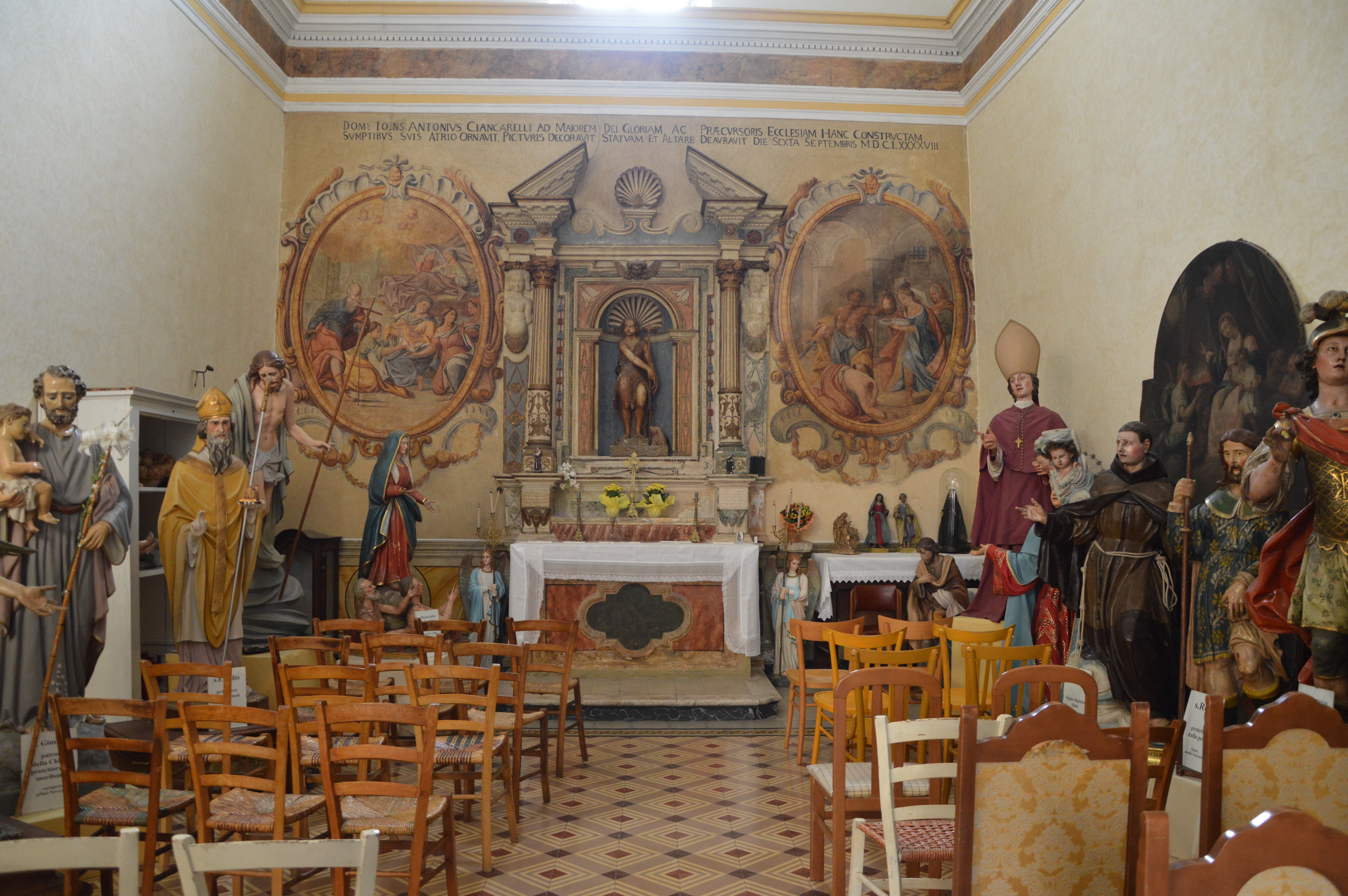 Interno